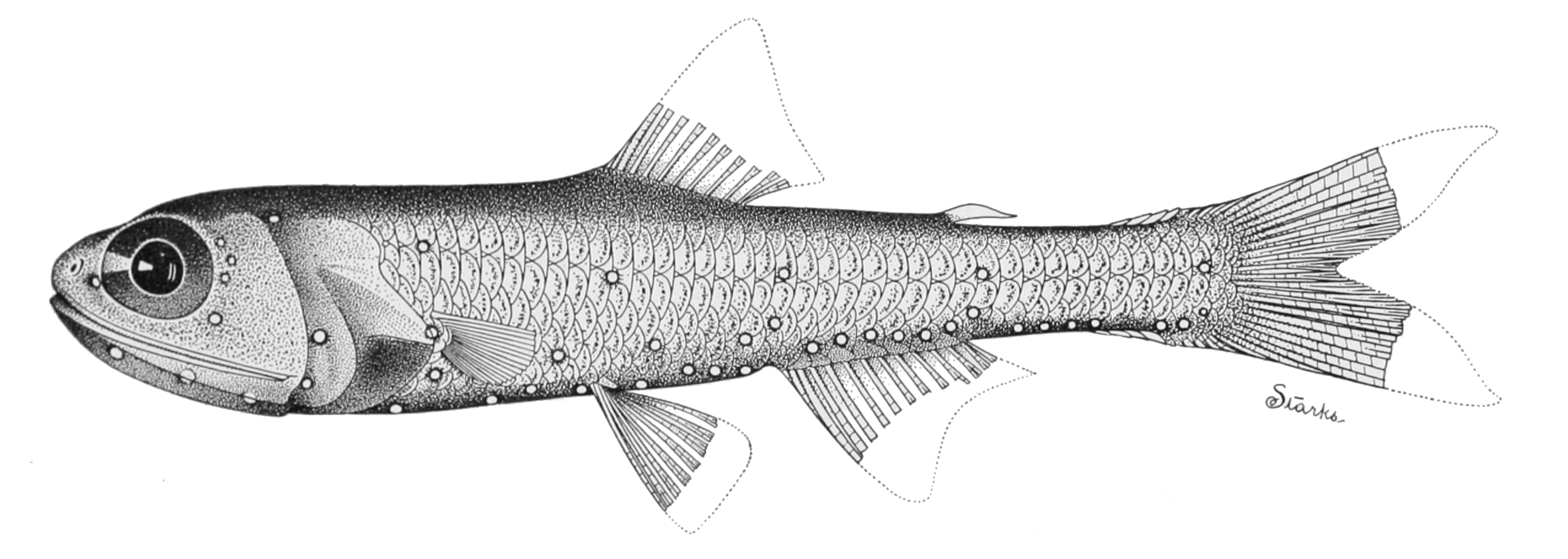 Bolinichthys photothorax